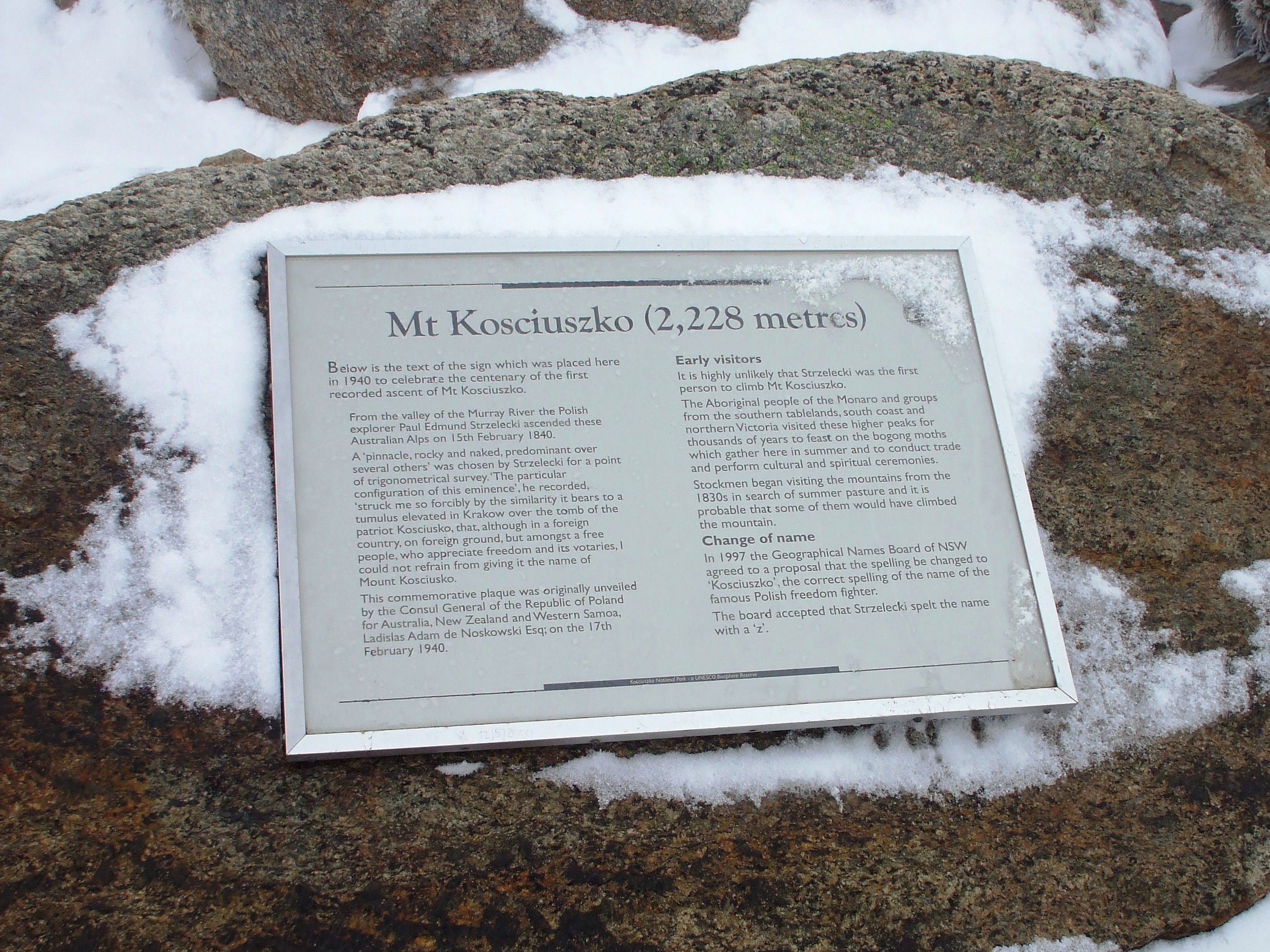 The plate on the top of Mount Koscisuko, Australia.